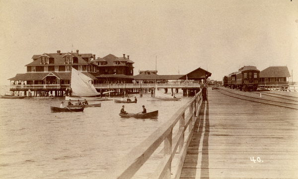 Persistent URL: Local call number: PR20727 Title: Atlantic Coast Line railroad company terminal at the Port of Tampa, Florida Date: ca. 1900 Physical descrip: 1 photoprint - b&w - 5 x 8 in. Series Title: Print Collection Repository: State Library and Archives of Florida 500 S. Bronough St., Tallahassee, FL, 32399-0250 USA, Contact: 850.245.6700